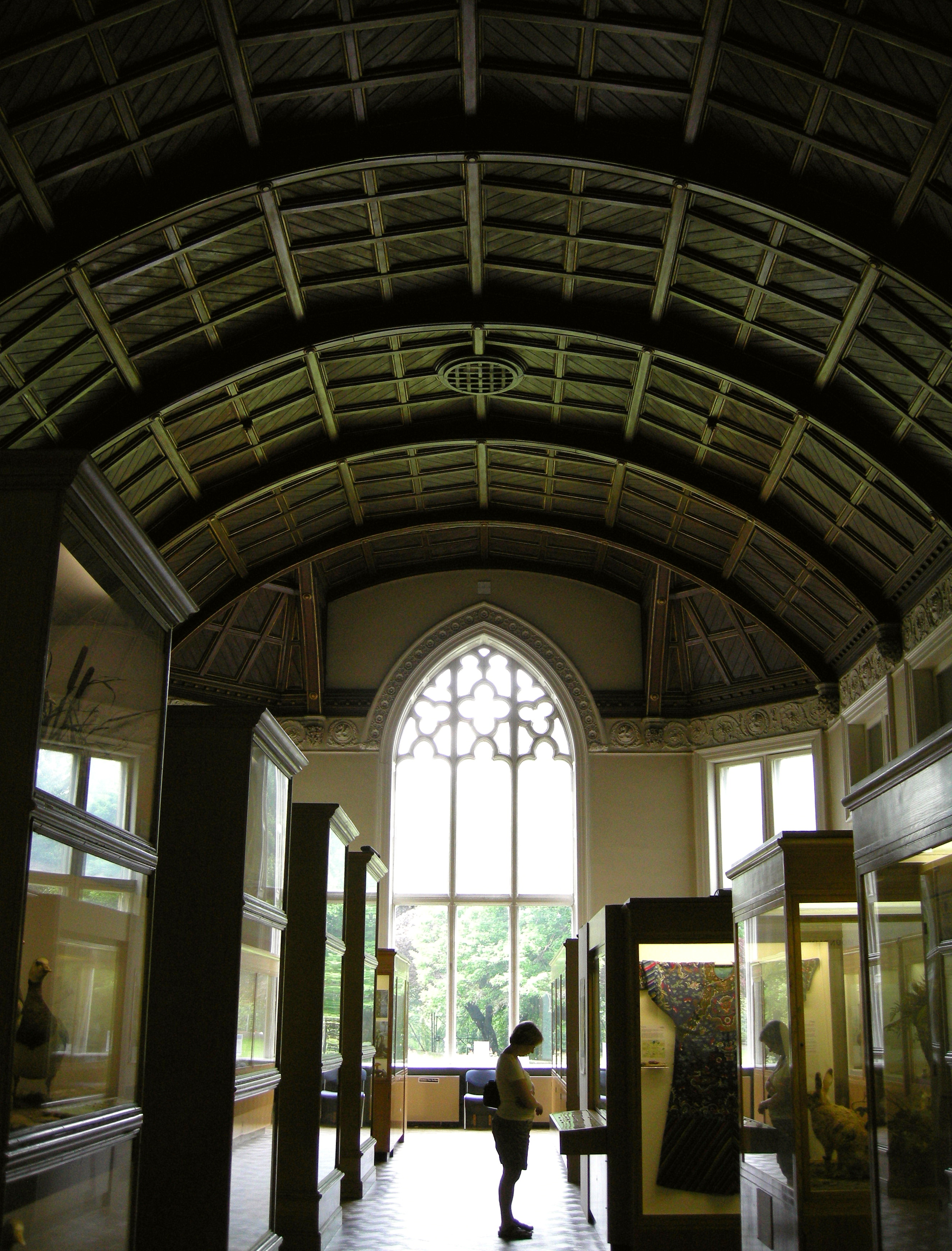 Victorian wooden barrel-vaulted Gothic Revival ceiling in the Natural History gallery, Cliffe Castle Museum, Keighley, West Yorkshire, England